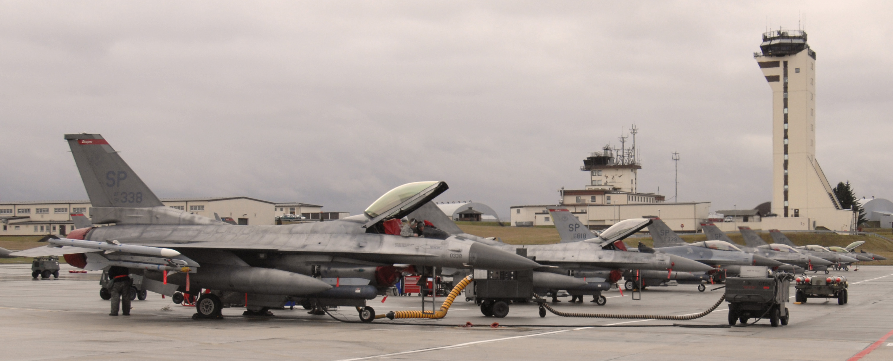 Spangdahlem Air Base, Germany – Staff Sgt. Megan Wilson, 52nd Aircraft Maintenance Squadron, performs an intake inspection on an F-16 Fighting Falcon during Operation Saber Crown 10-04 Feb. 25. The exercise evaluated the wing’s ability to support short-notice deployments and prepare for the upcoming operation readiness inspection and NATO force evaluation this summer.